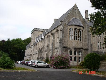 St. Beuno's College. St. Beuno's Spirituality Centre at Tremeirchion